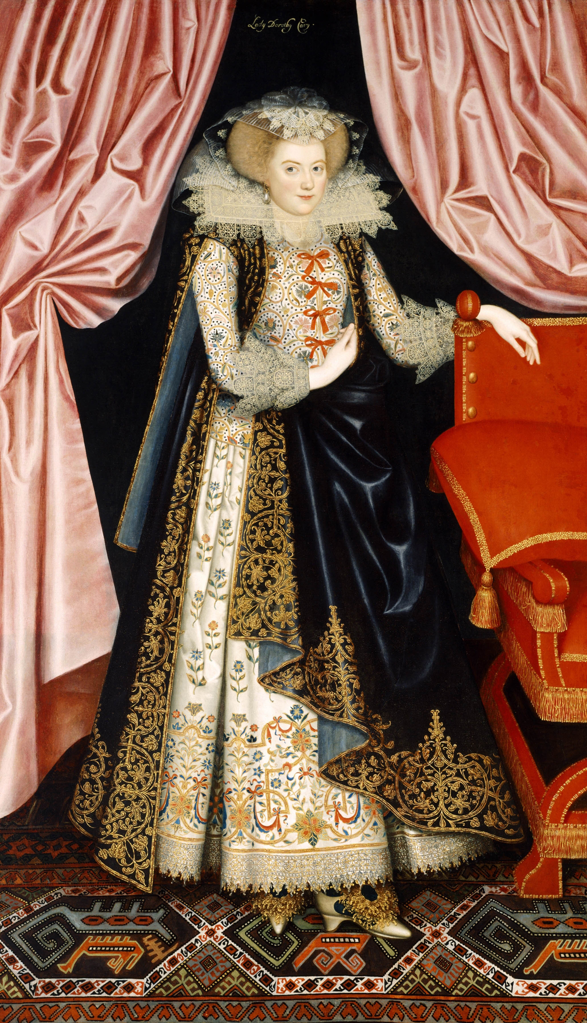 Larkin, William; Probably Elizabeth Cary, nee Tanfield; English Heritage, Kenwood